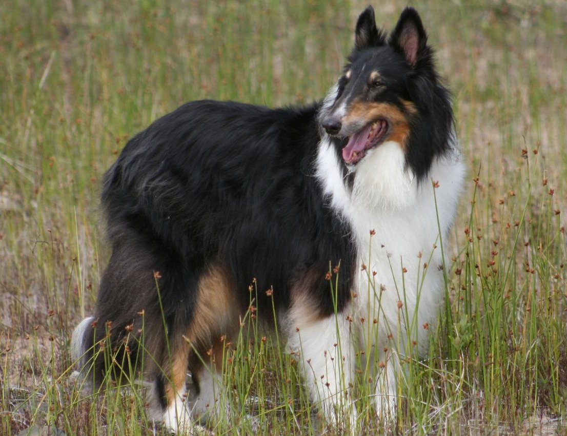 A tricolour Rough Collie named Angus.